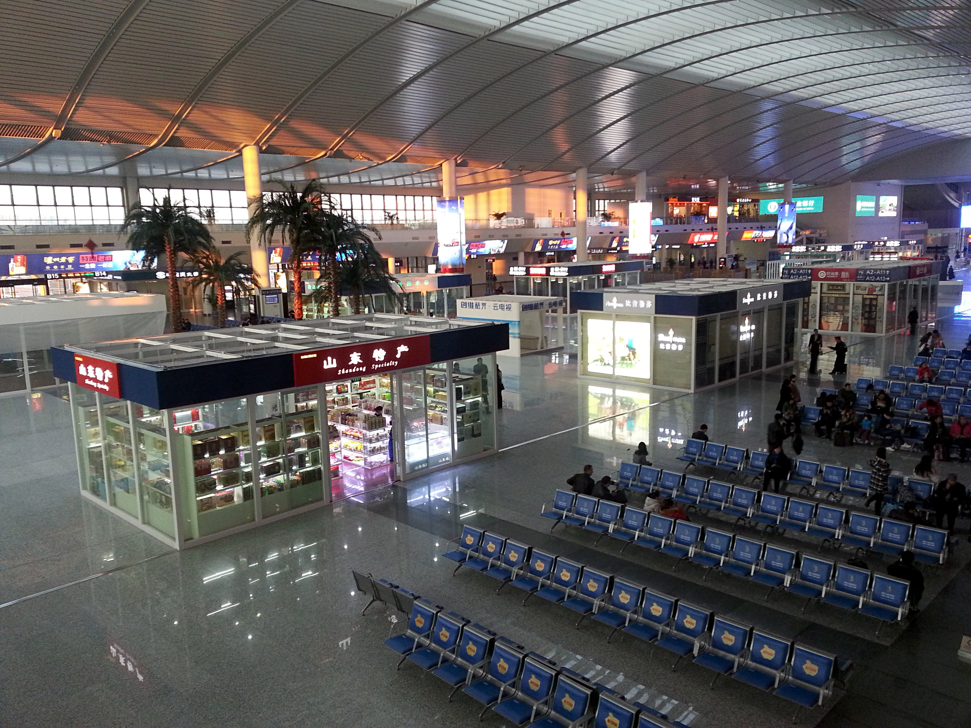 Photograph of the main waiting hall of the Jinan West Railway Station, Jinan, Shandong, China